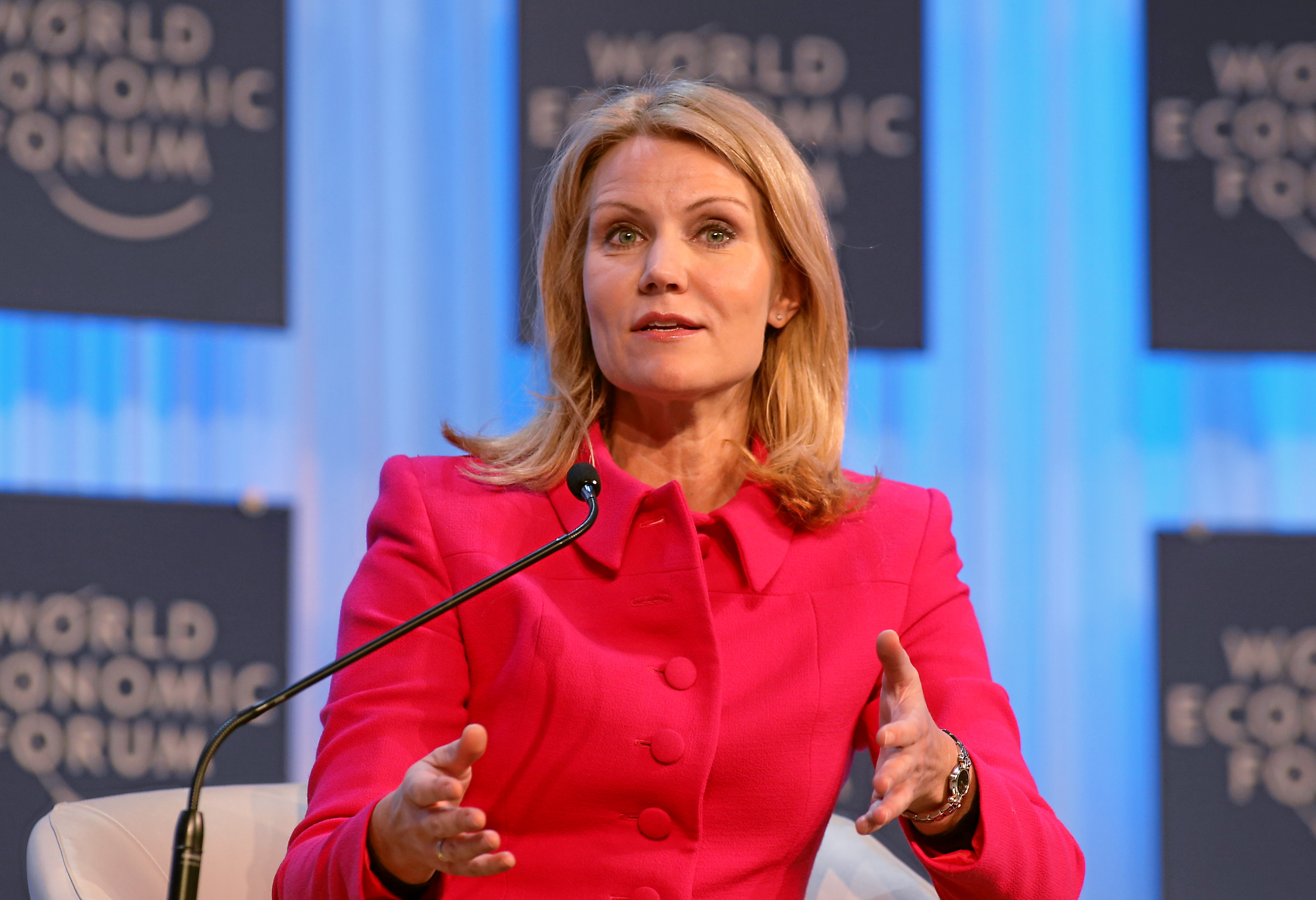 DAVOS/SWITZERLAND, 24JAN13 - Helle Thorning-Schmidt, Prime Minister of Denmark speaks during the session 'Eurozone Crisis - Building Resilient Institutions' at the Annual Meeting 2013 of the World Economic Forum in Davos, Switzerland, January 24, 2013.. . Copyright by World Economic Forum. . Monika Flueckiger